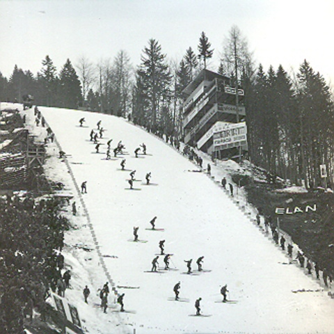 Tireless tramples in Planica.